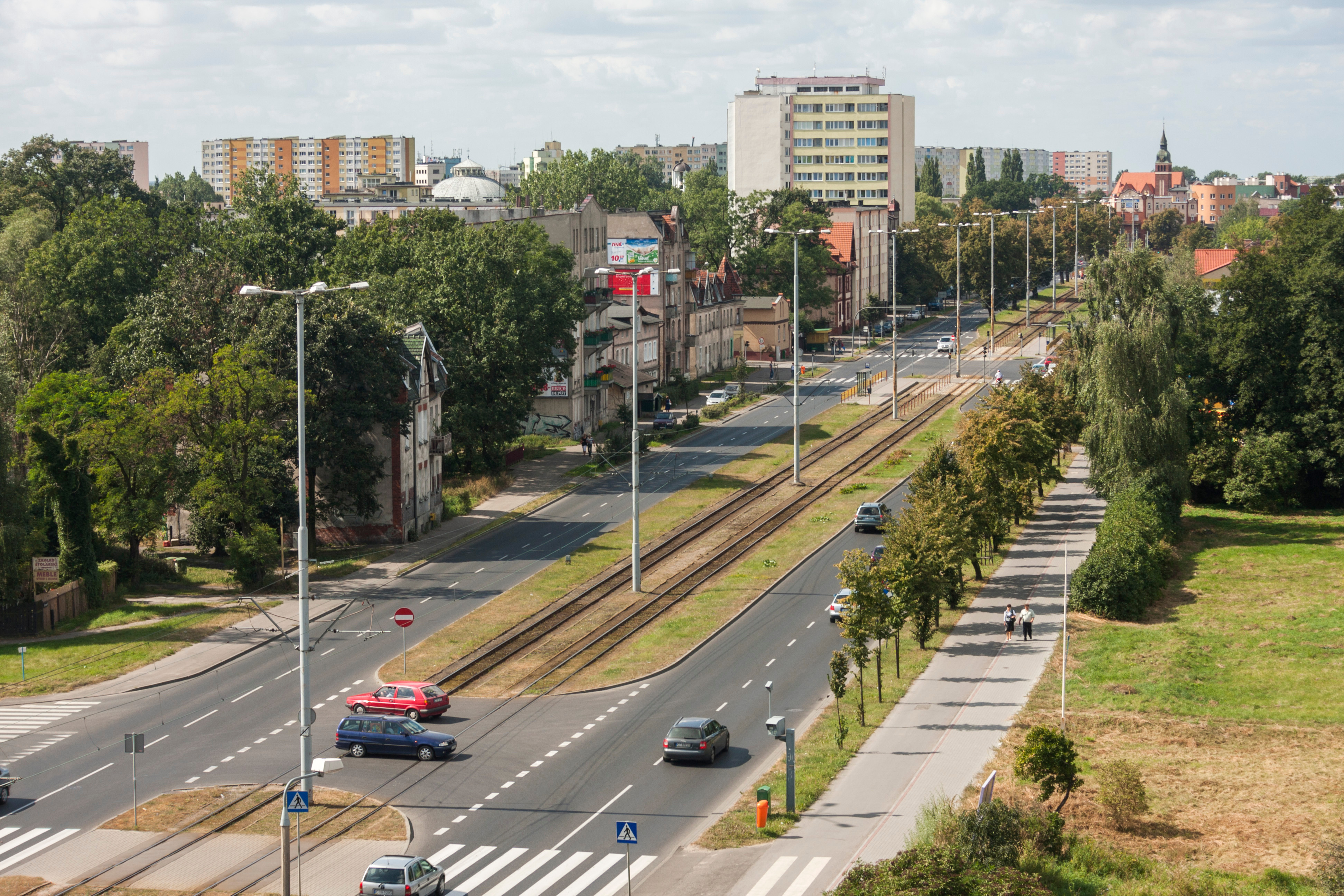 Kościuszki Street in Toruń.